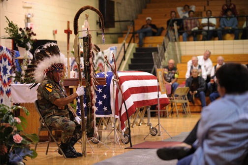 Larry Hale, a member of the Red Feather Society, guards the flag-draped casket of Sgt. 1st Class Arthur F. "Bluie" Jewett at his funeral held in Eagle Butte, S.D., on Sept. 25, 2009. Jewett, a member of the Cheyenne River Sioux Tribe, was declared Missing in Action after the Korean War's Chosin Reservoir campaign in 1950. Fifty-nine years later, his remains were positively identified and returned for burial in South Dakota.